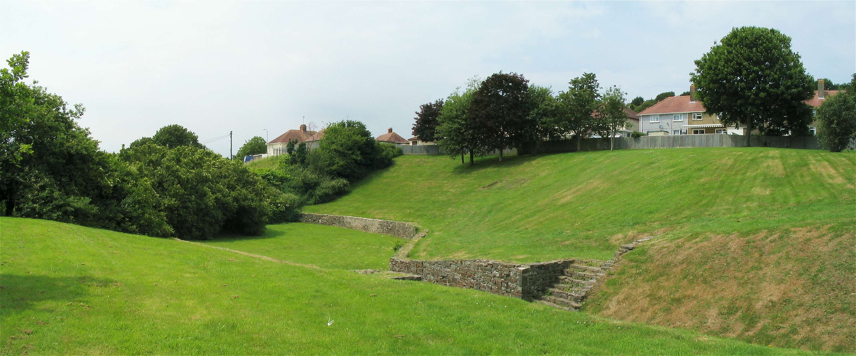 Roman Amphitheatre, Carmarthen